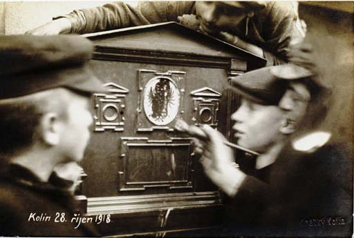 Symbols of Austria-Hungary on a post box in Kolín being painted over on October 28, 1918, the day Czechoslovakia was proclaimed